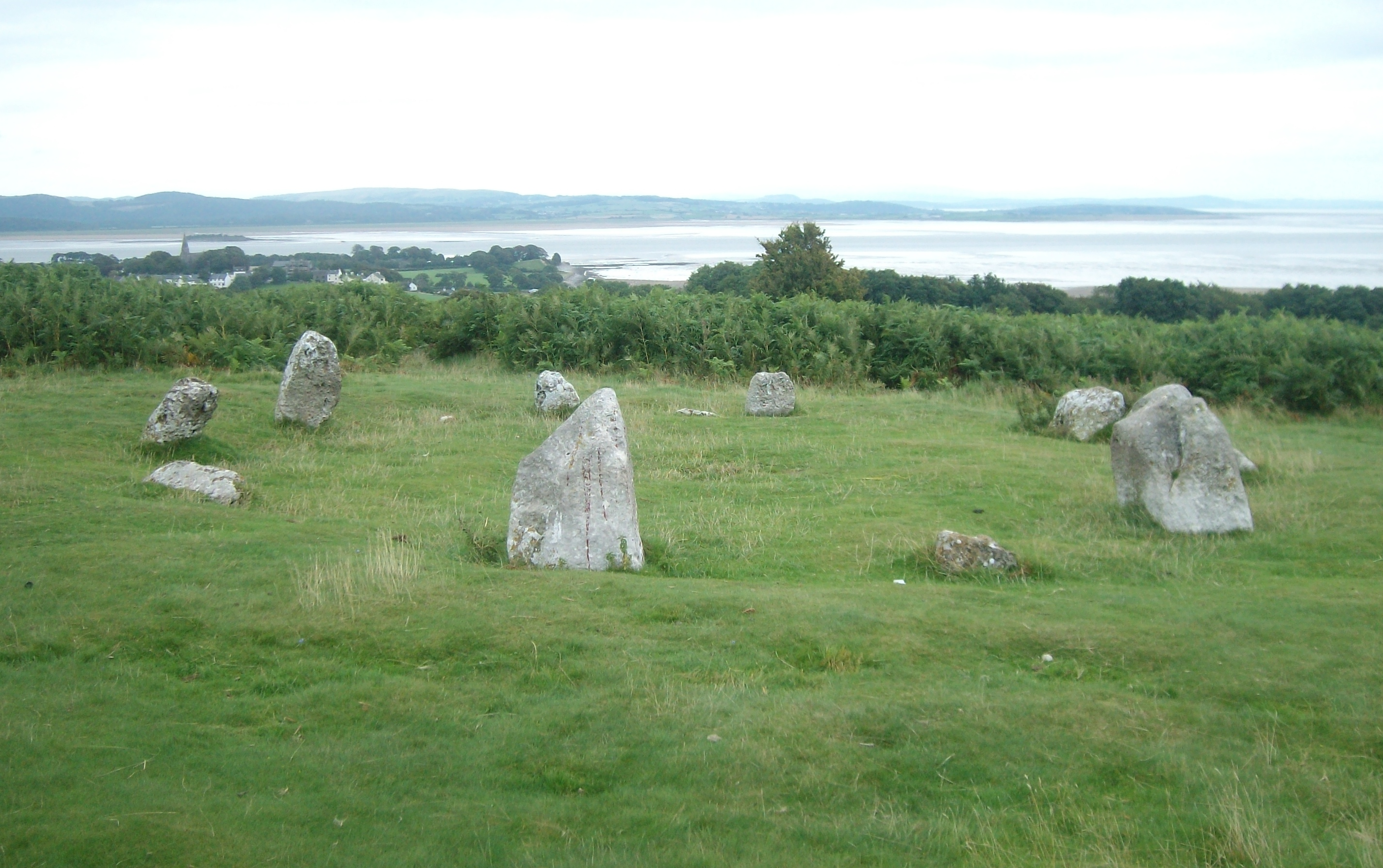 The Birkrigg stone circle, also known as the Druid's Temple is a Bronze Age stone circle in the English county of Cumbria dating to between 1700 and 1400 BC (Wikipedia). The red on the foreground is a vandal's paint, not blood from a pagan sacrifice, I'm assured.